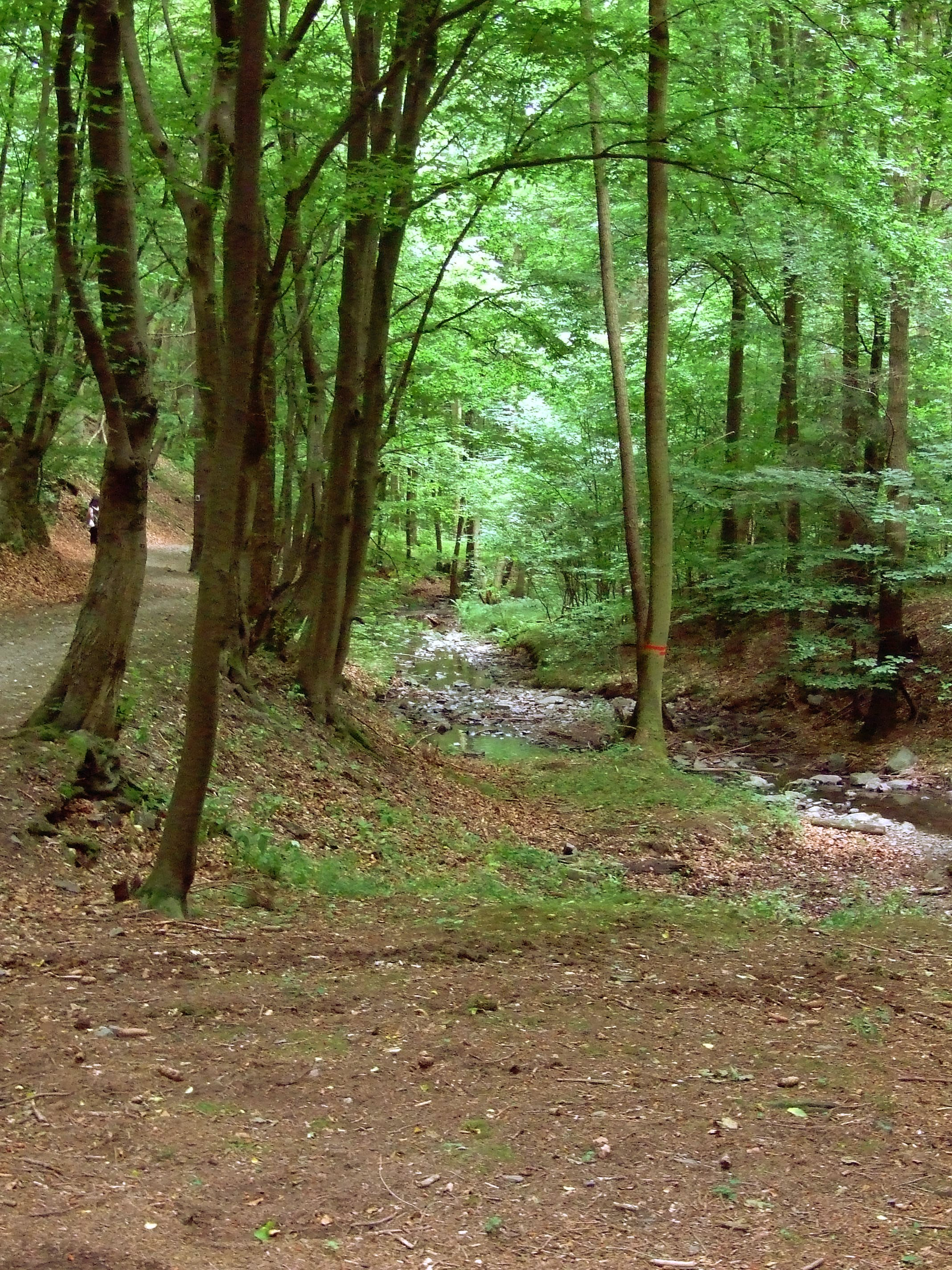 Vůznice stream near Jinčov fortified tower, Central Bohemian region, CZhelp